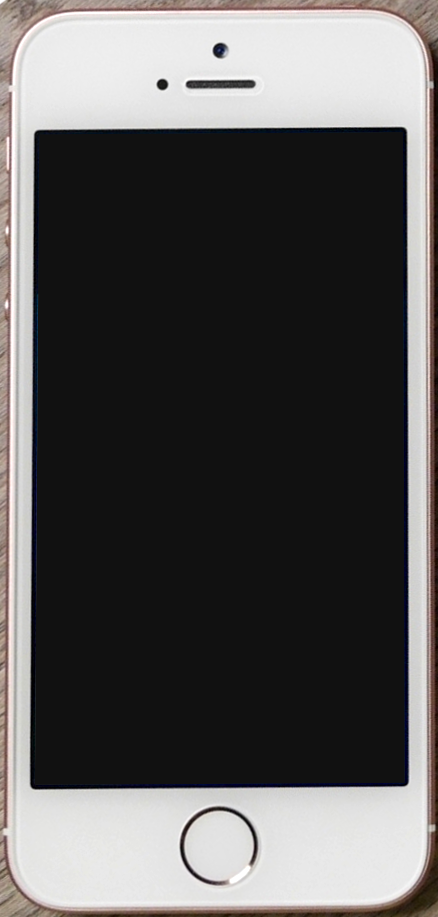 Photo of iPhone SE in rose gold.